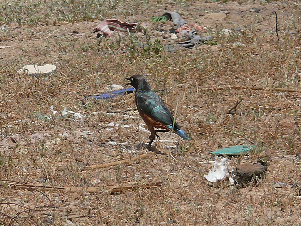 Chestnut-bellied starling (Lamprotornis pulcher) photographed near Dagana, Senegal